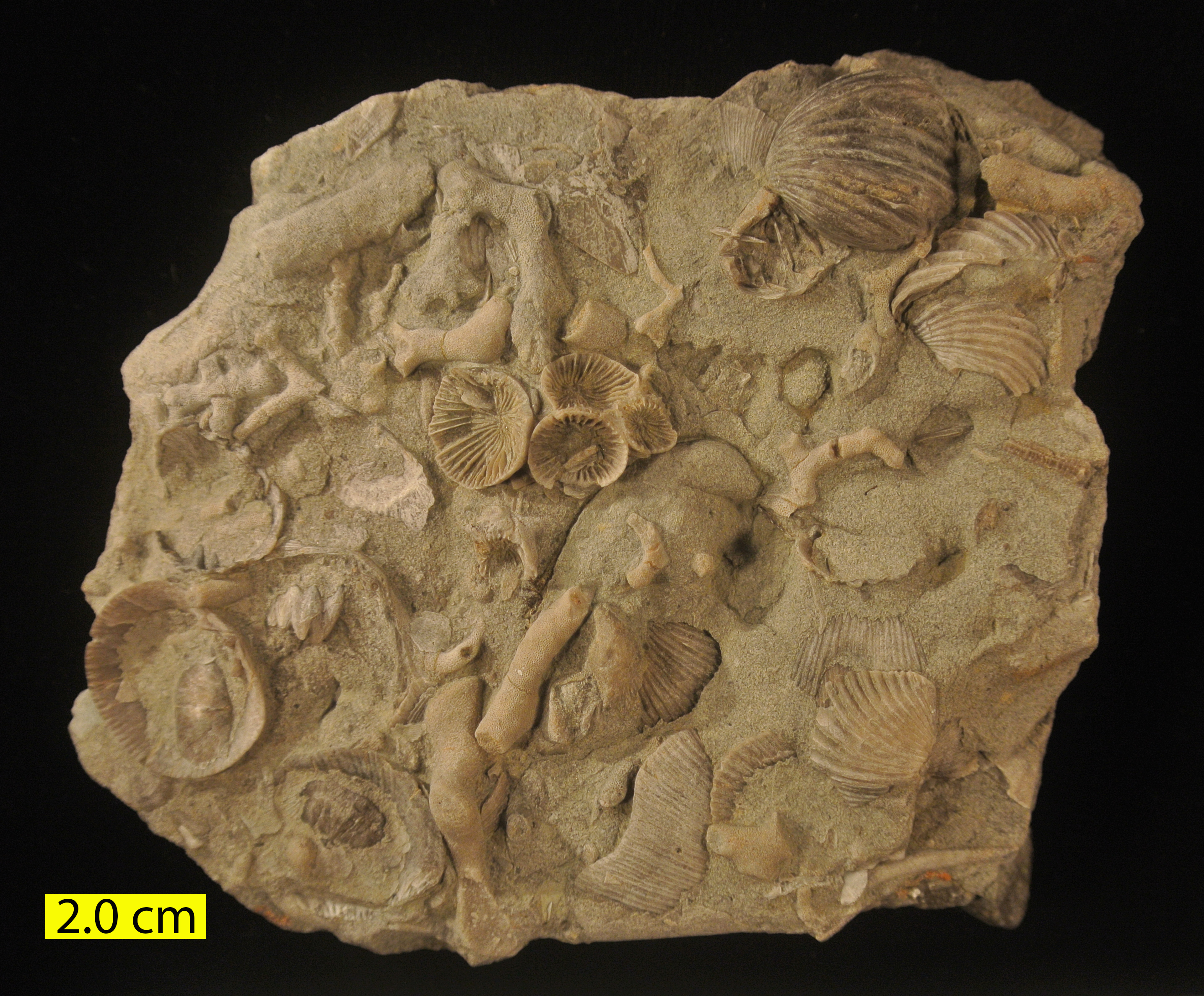 Fossiliferous limestone slab from the Liberty Formation (Upper Ordovician) of Caesar Creek State Park near Waynesville, Ohio. Specimen found by College of Wooster student Willy Nelson.